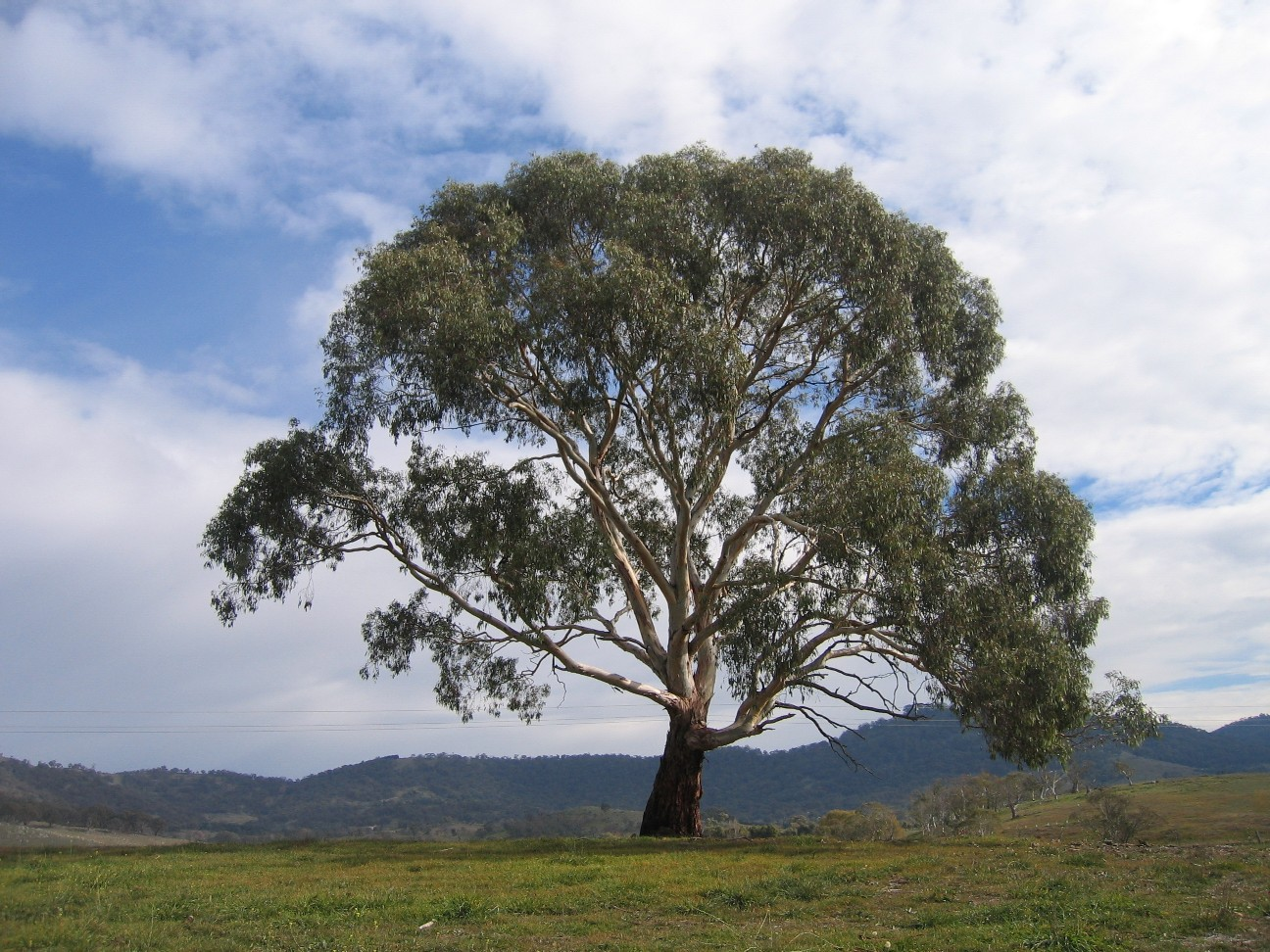 Eucalyptus Rubida, at Burra creek near the Lagoon, Burra, New South Wales